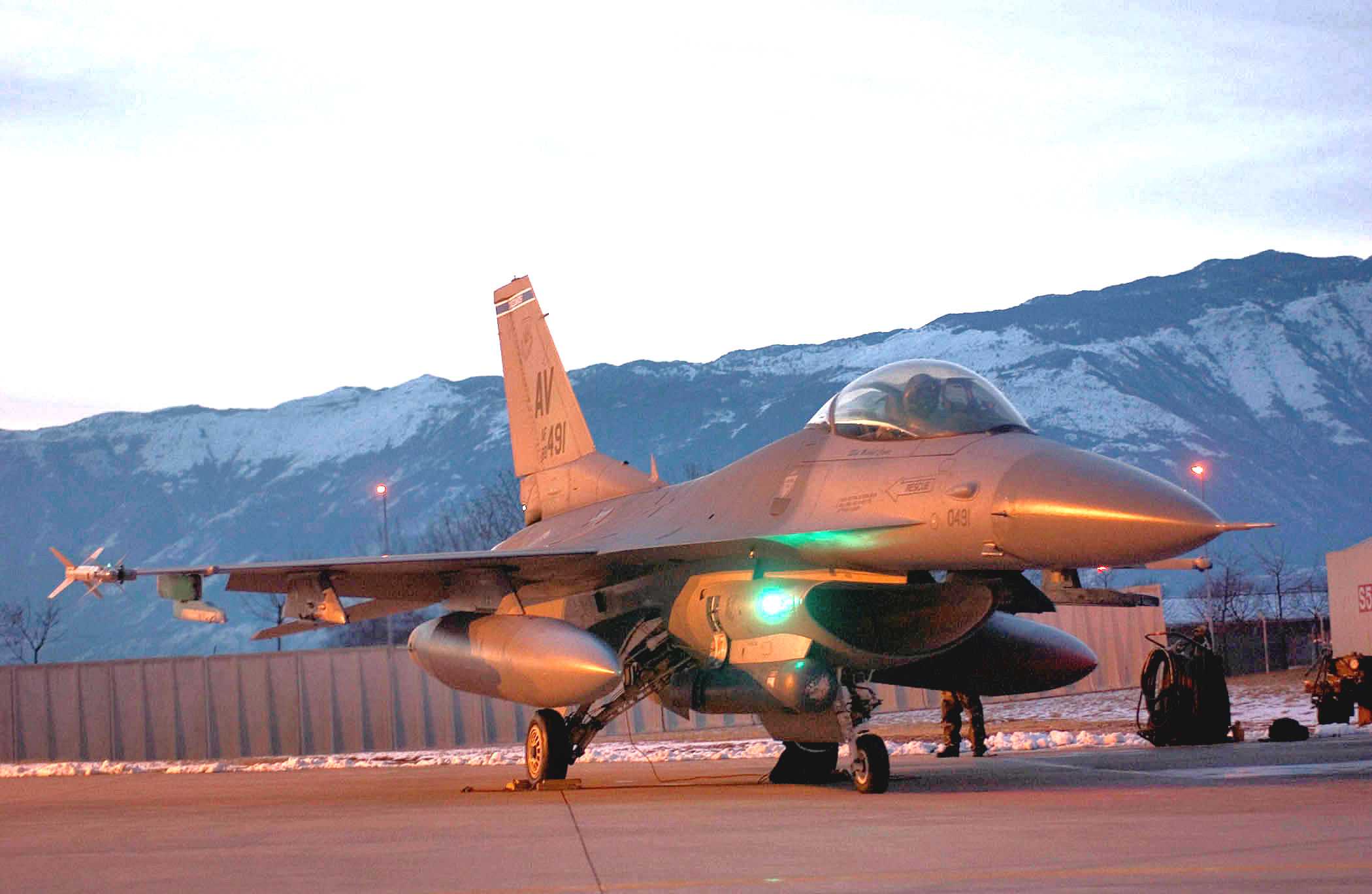 AVIANO AIR BASE Italy -- An F-16 Fighting Falcon is ready to launch after nearly six inches of snow accumulated here Feb. 21. The area averages less than four inches of snowfall annually; the last significant snowfall was in December 2001. (U.S. Air Force photo by Master Sgt. John E. Lasky)